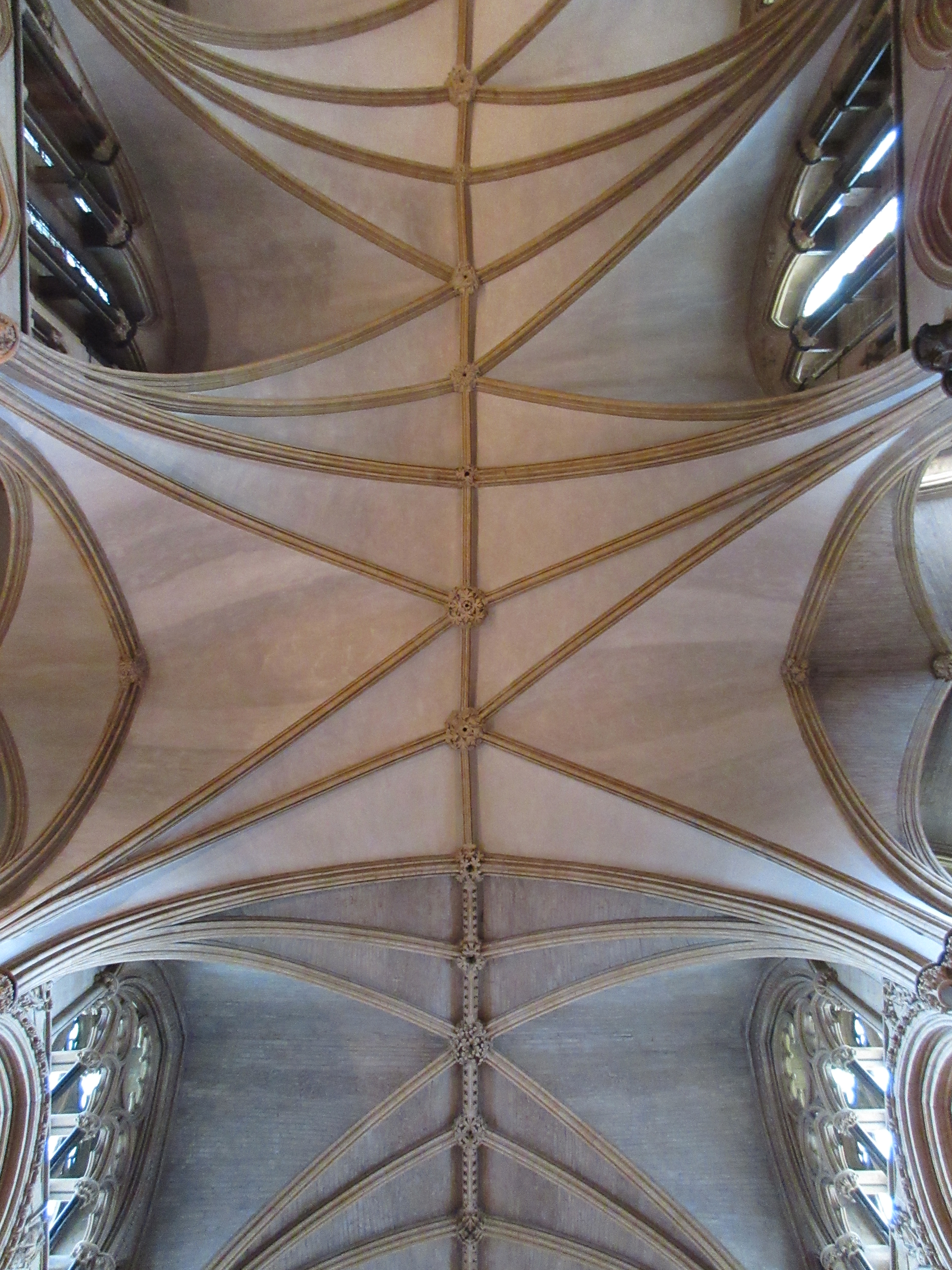 Crossing of Secondary transept